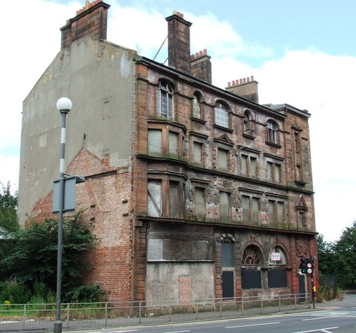 Last one standing. The oldest remaining sandstone tenement in the Gorbals. The ground floor was previously the British Linen Company bank. See carving detail here 532129.